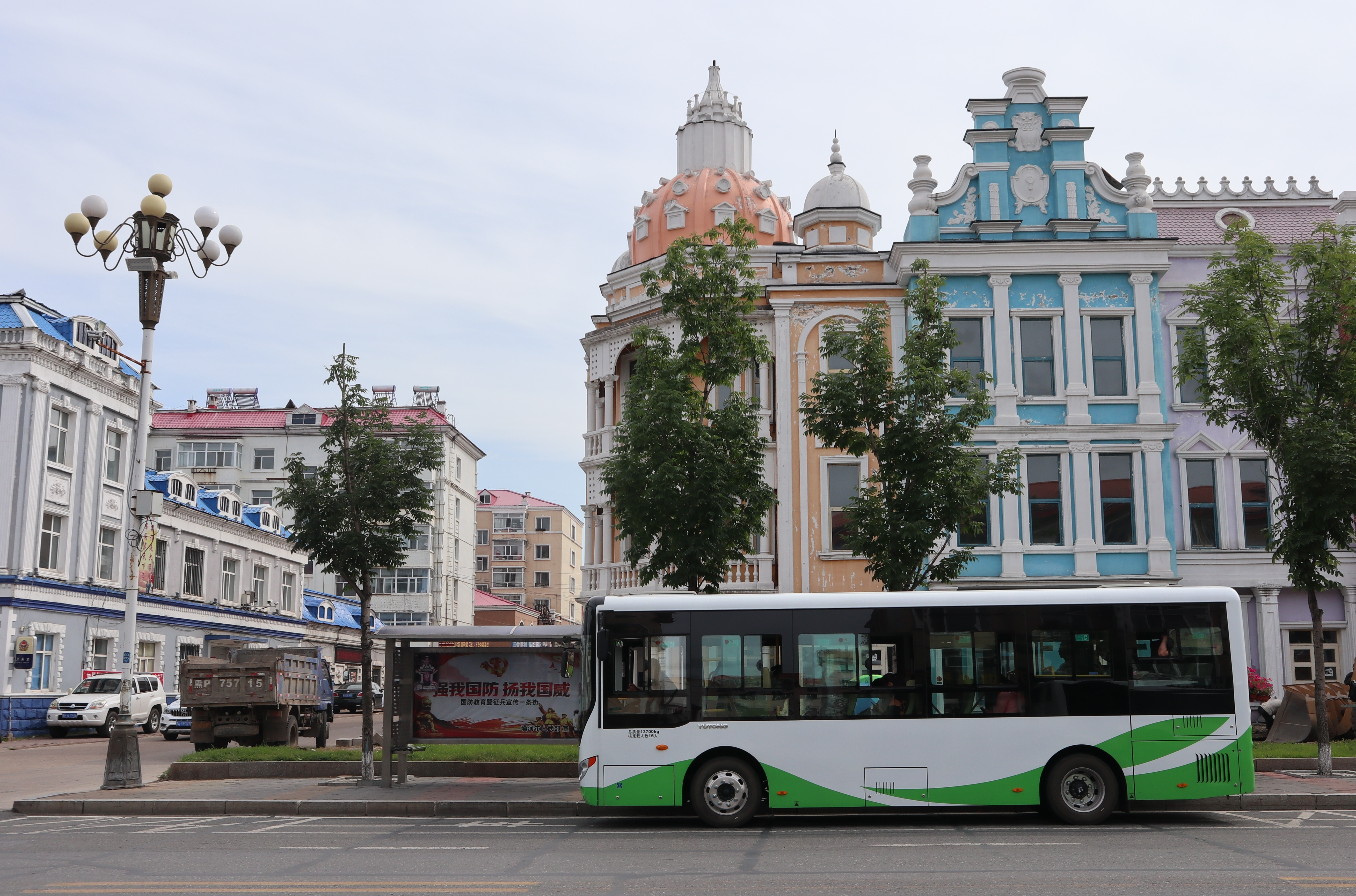 Bus and bus stop in Mohe.